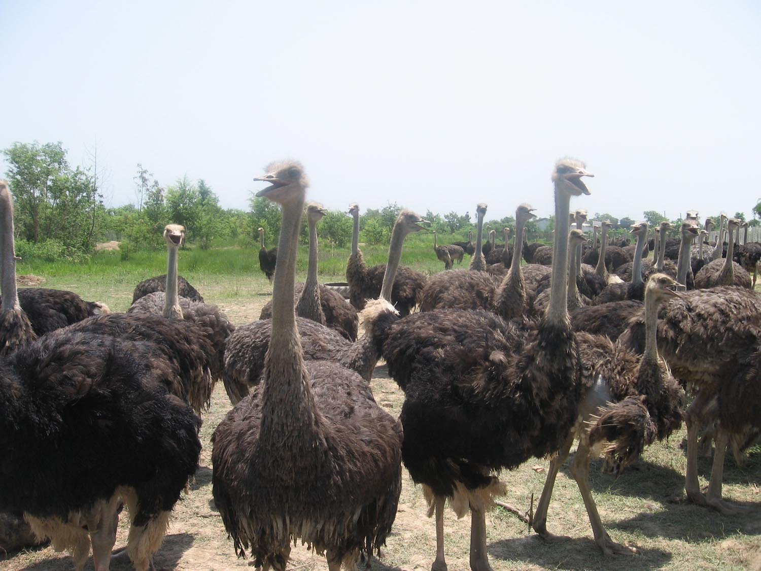 Ostrich farming in Nepal.